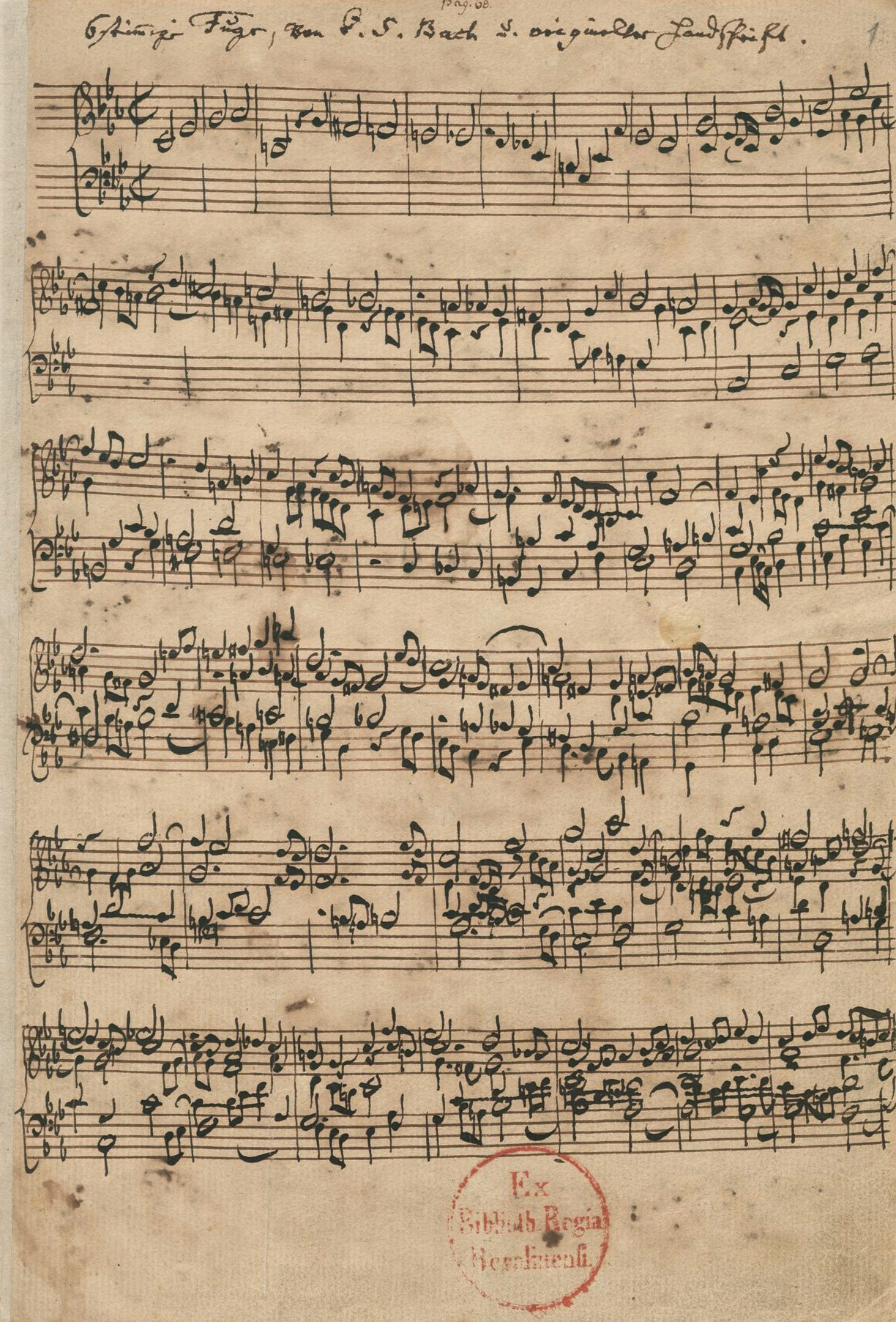 The first page of the manuscript of the "Ricercar a 6" BWV 1079 by Johann Sebastian Bach.